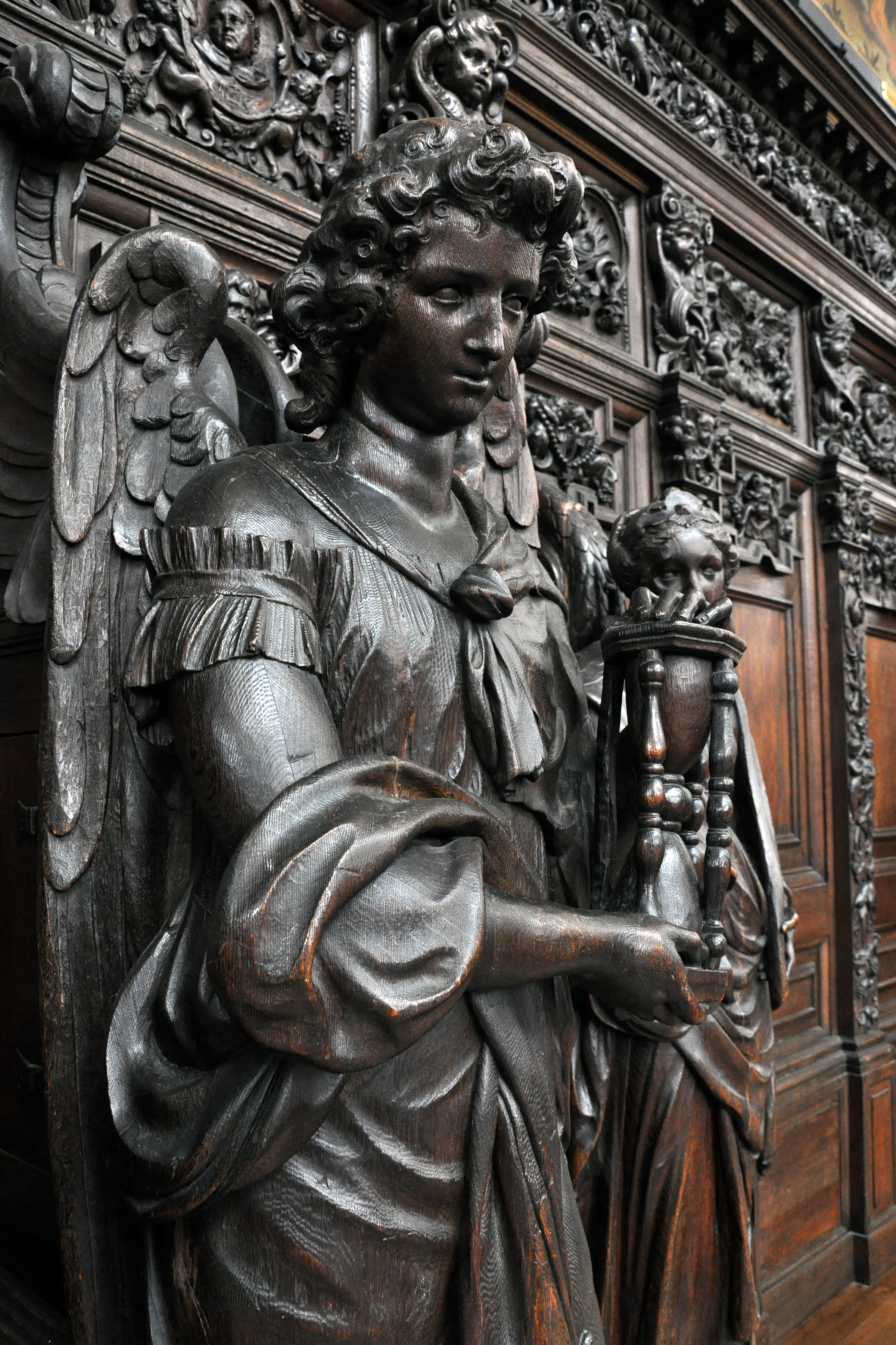 A confessional in Sint-Pauluskerk,in Antwerp. Wood carving by Pieter Verbrugghen I, 17th century (between 1658 and 1660). Detail: an angel holding an hourglass, as a symbol of Time.